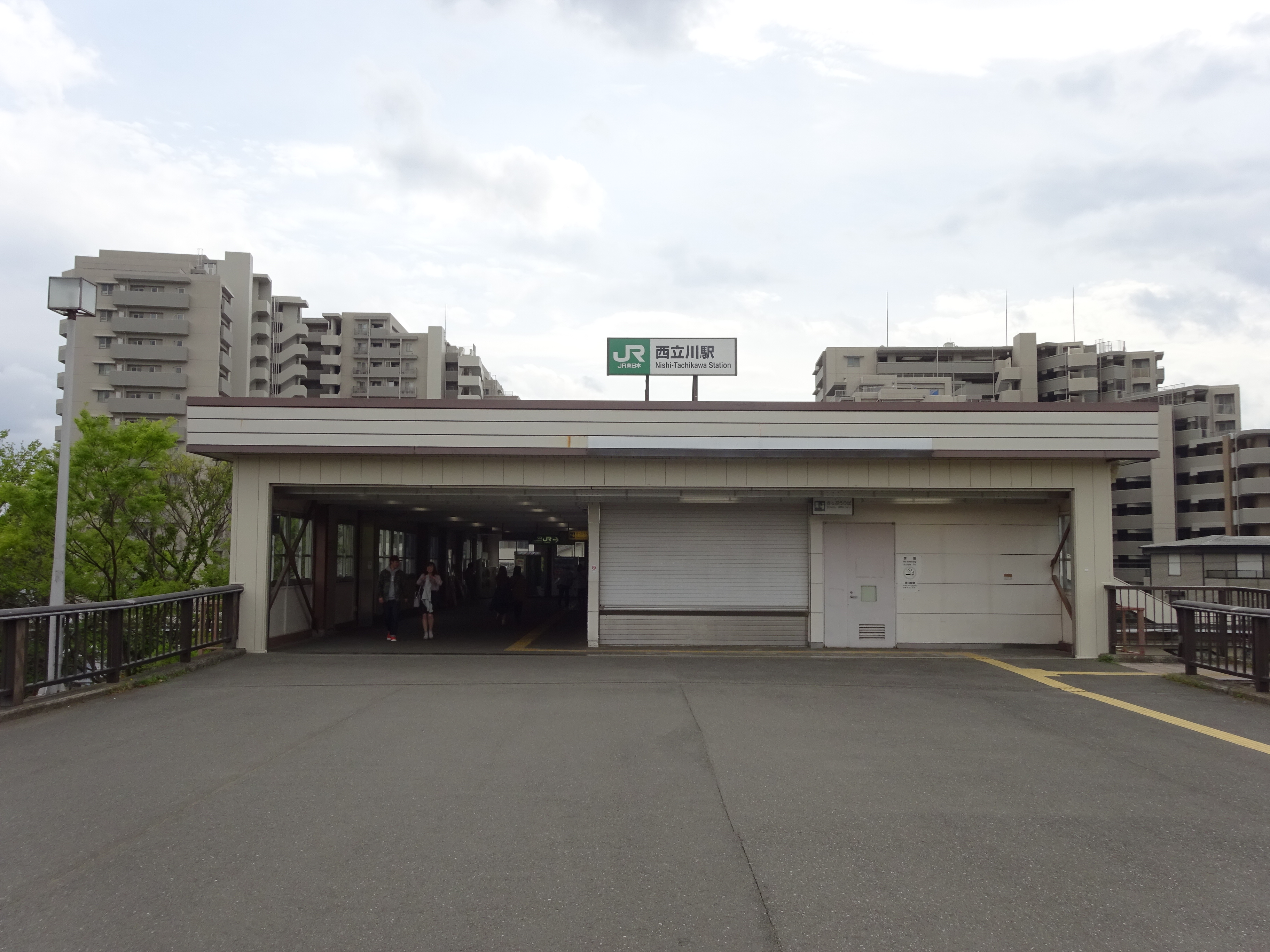 North entrance of Nishi-Tachikawa Station